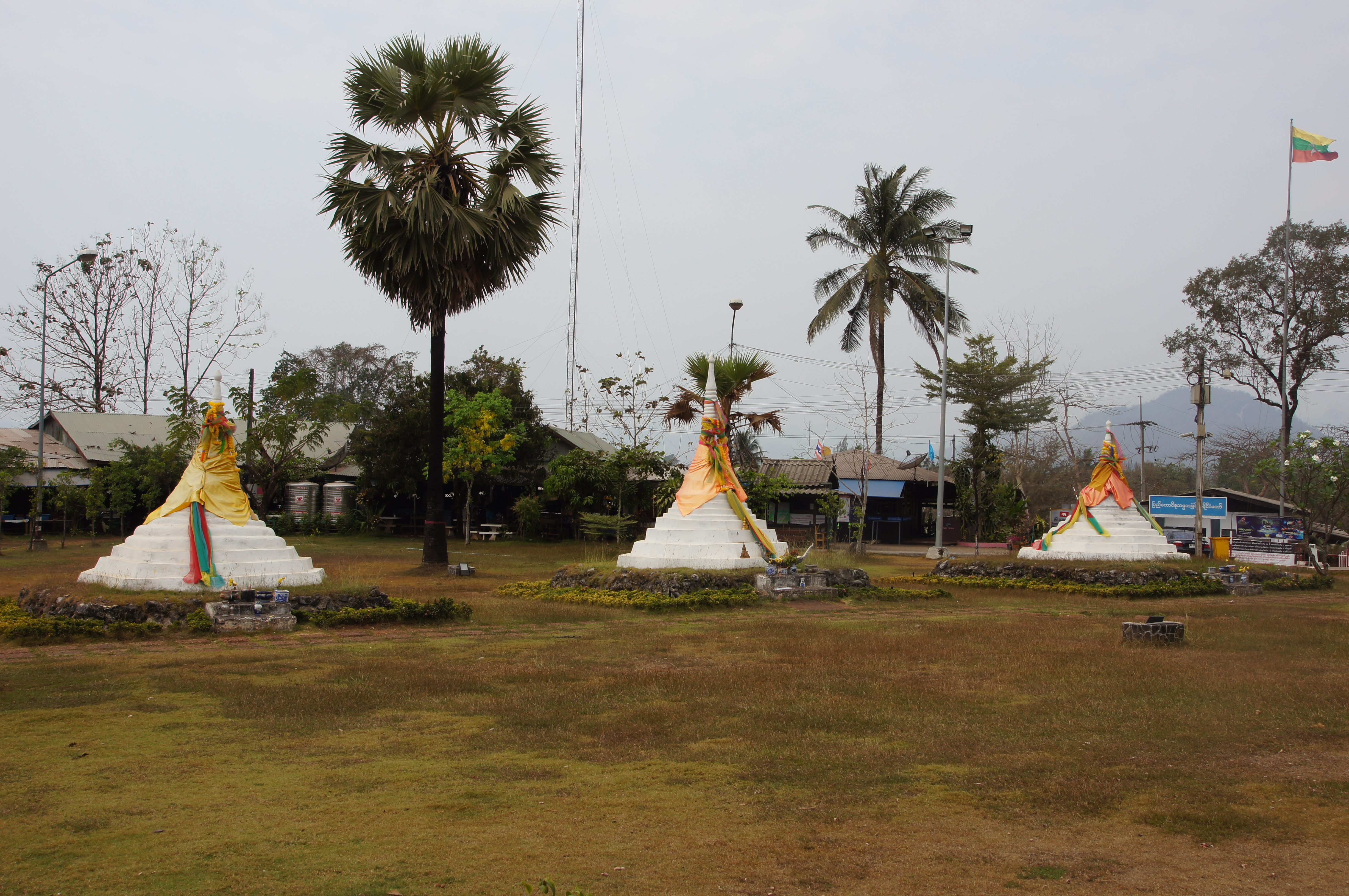 เจดีย์สามองค์ของด่านเจดีย์สามองค์